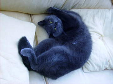 This is a British Blue pure breed. He is enjoying lounging around!